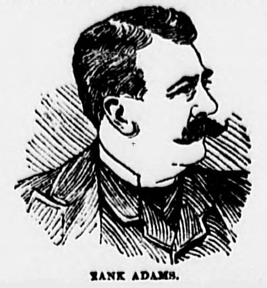 Sketch portrait of finger billiards champion, Yank Adams.